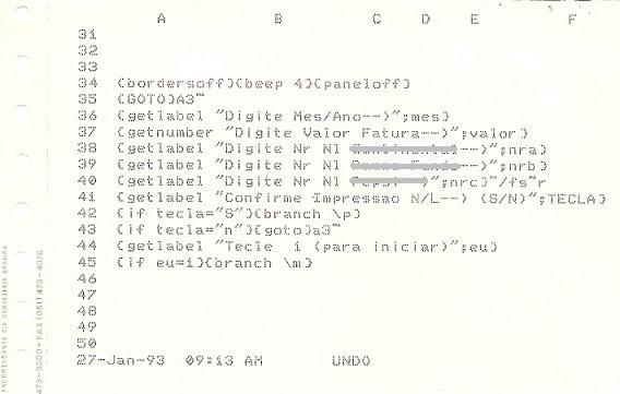 Macros in Lotus 1-2-3 Release 2.2 1989